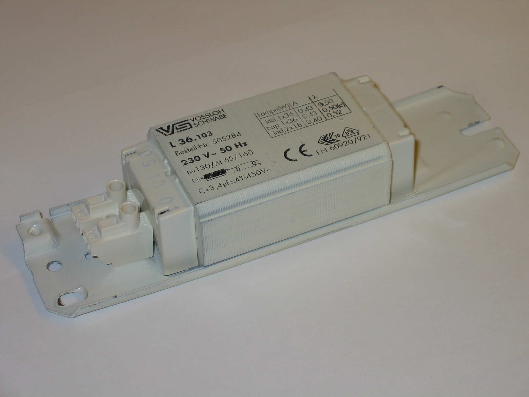 An inductor with an iron core for a fluorescent lamp